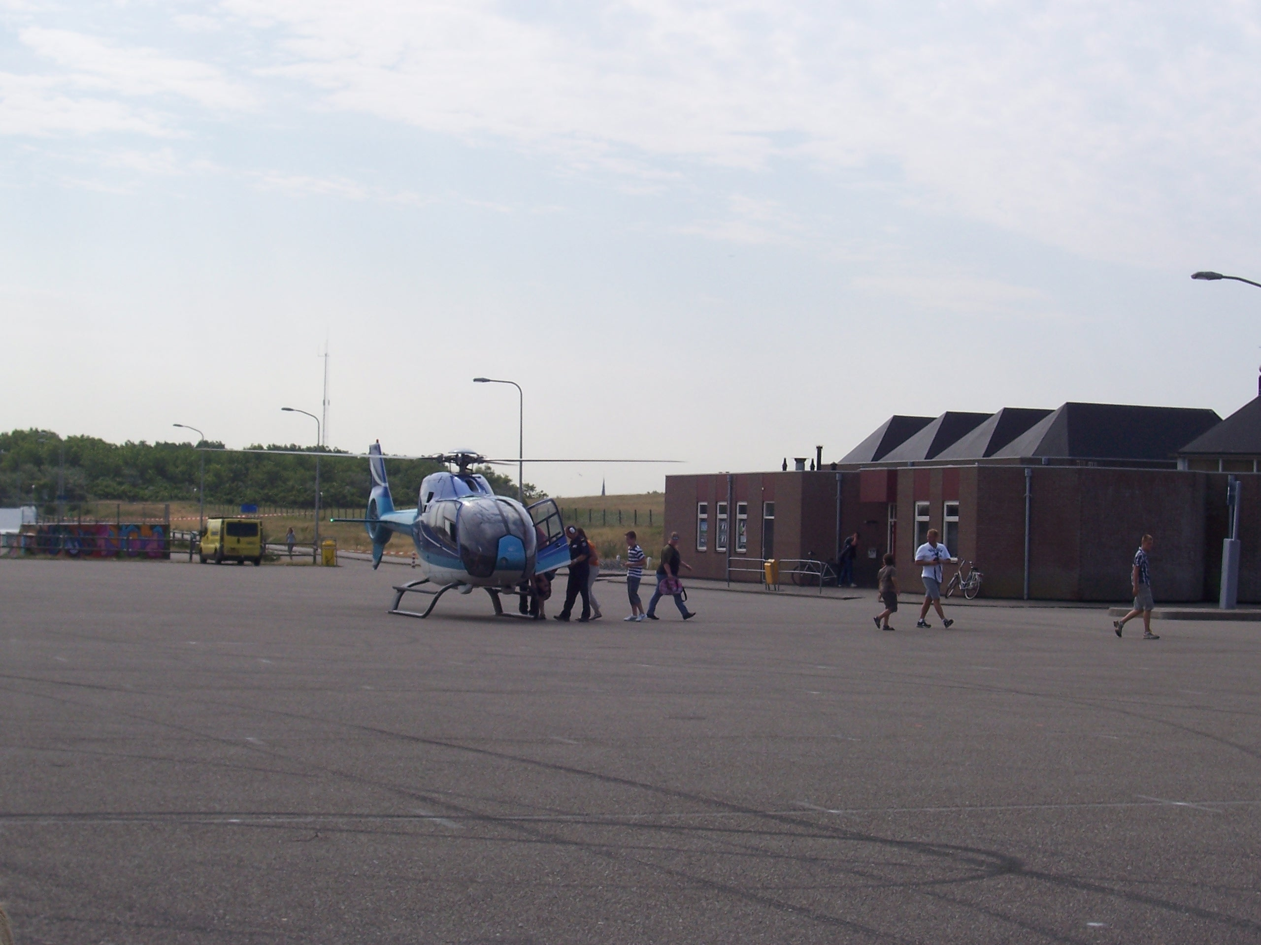 Helicopter, near SCUM in Katwijk, South Holland.